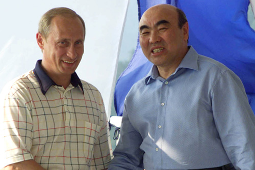 DAGOMYS, SOCHI. President Putin and Kyrgyz President Askar Akayev.